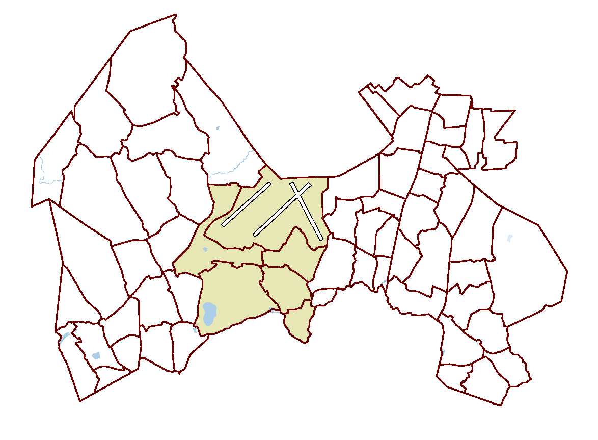 Map of Vantaa with the Aviapolis area highlighted